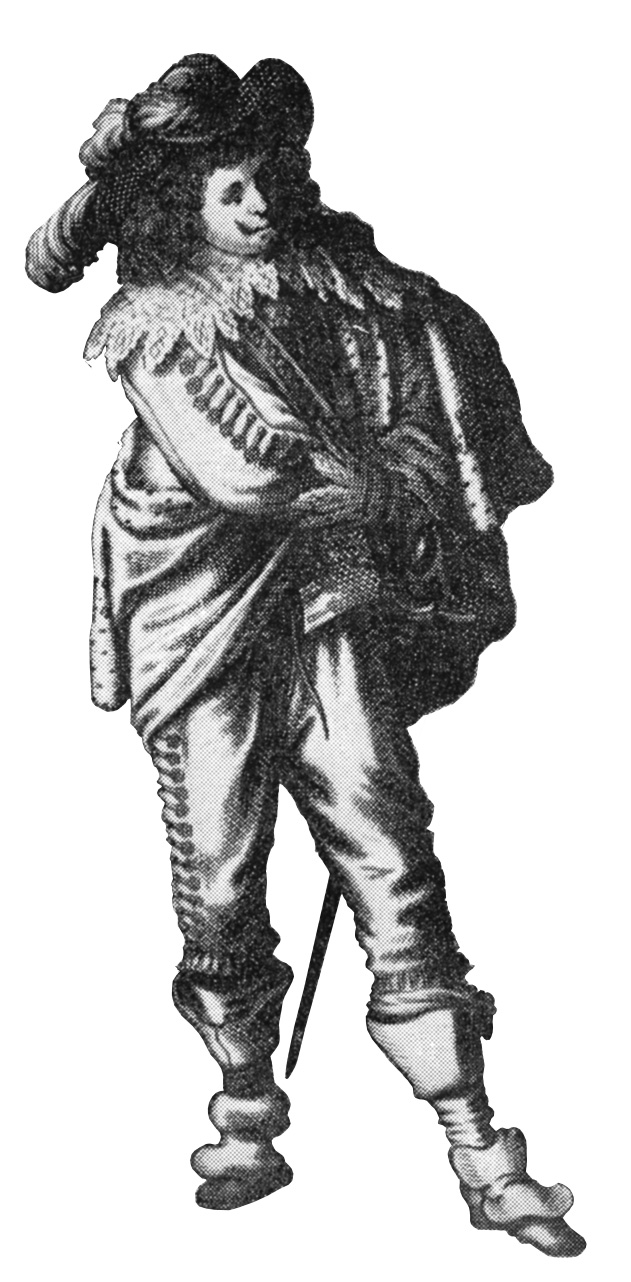 Detail from an engraving from the Recueil Fossard, depicting the actor Charles Le Noir from the Troupe Royale at the Hôtel de Bourgogne (theatre) in Paris